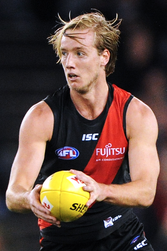 Darcy Parish of Essendon during the 2018 AFL round 6 match between Essendon and Melbourne at Etihad Stadium on Sunday, 29 April 2018 in Melbourne, Victoria.